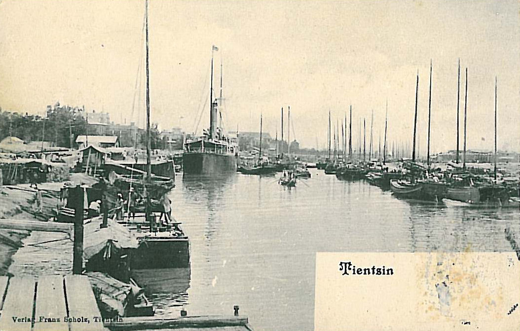 Historical postcard of China